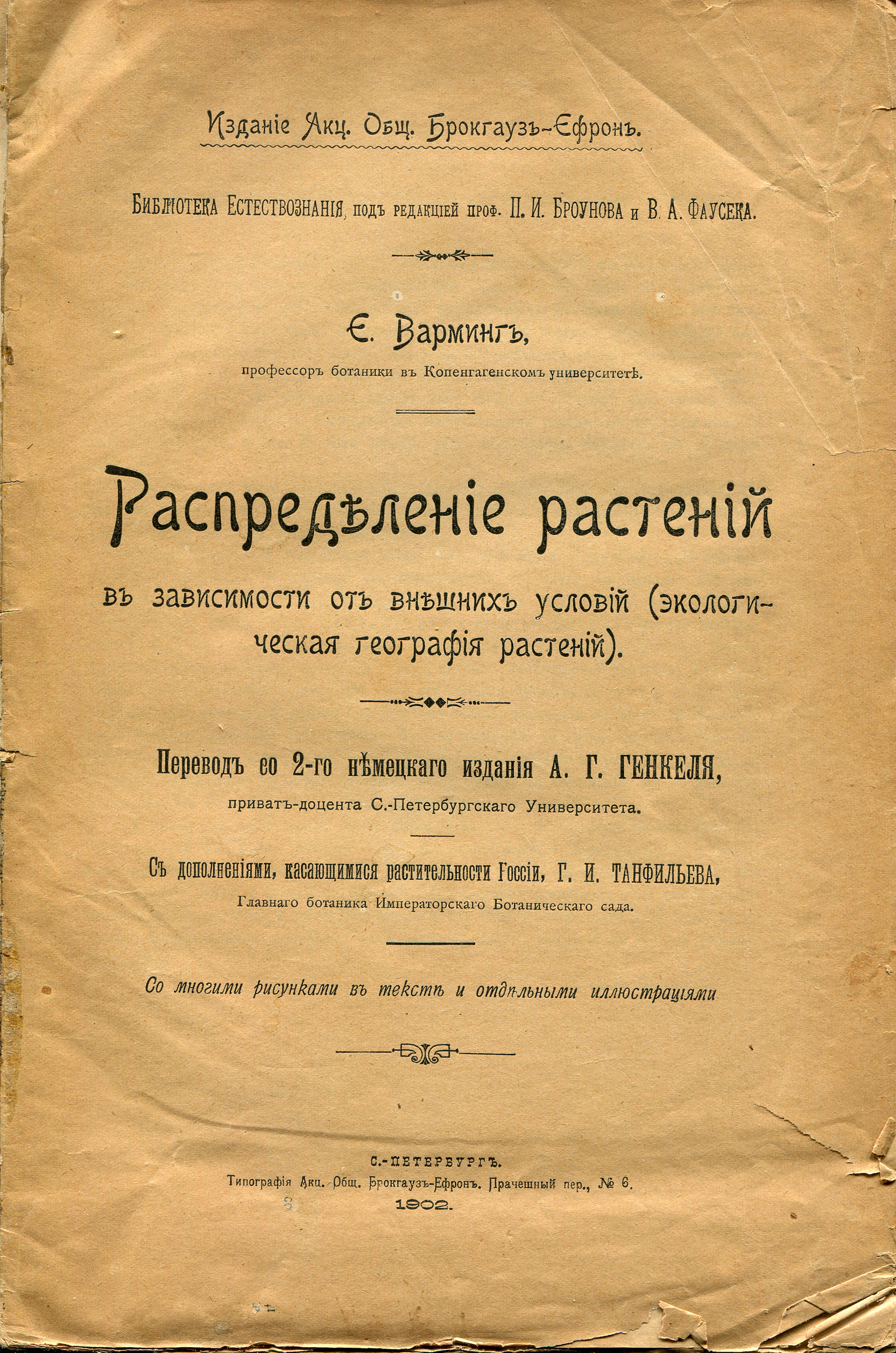 Johannes Eugenius Bülow Warming. Book - Plant distribution. Publishing House Brockhaus - Efron 1902.